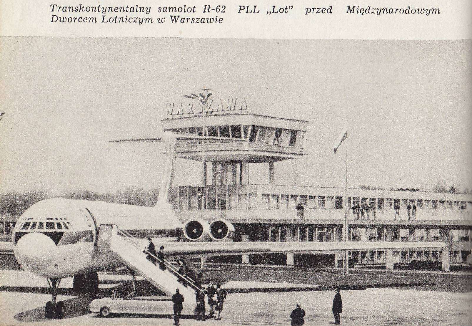 Ilyushin Il-62 of LOT Polish Airlines at Okęcie (now Frederic Chopin) Airport